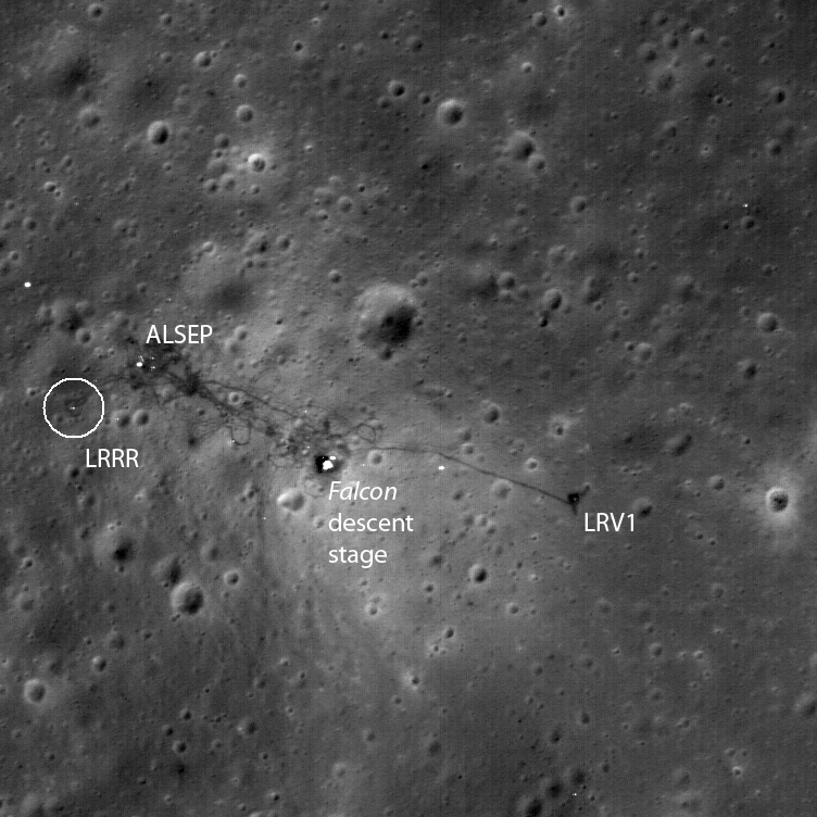 Falcon's descent stage on the plain at Hadley as seen by LRO in April, 2010. Parked LRV is to the right. To the upper left is ALSEP. Circled is Laser Range Retro - Reflector